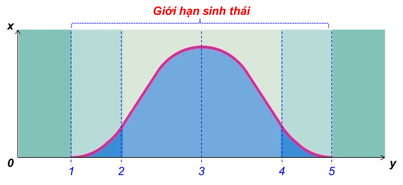 The general graph of "Tolerance ranges" in Ecology (or "Ecological Limits Of Tolerance").